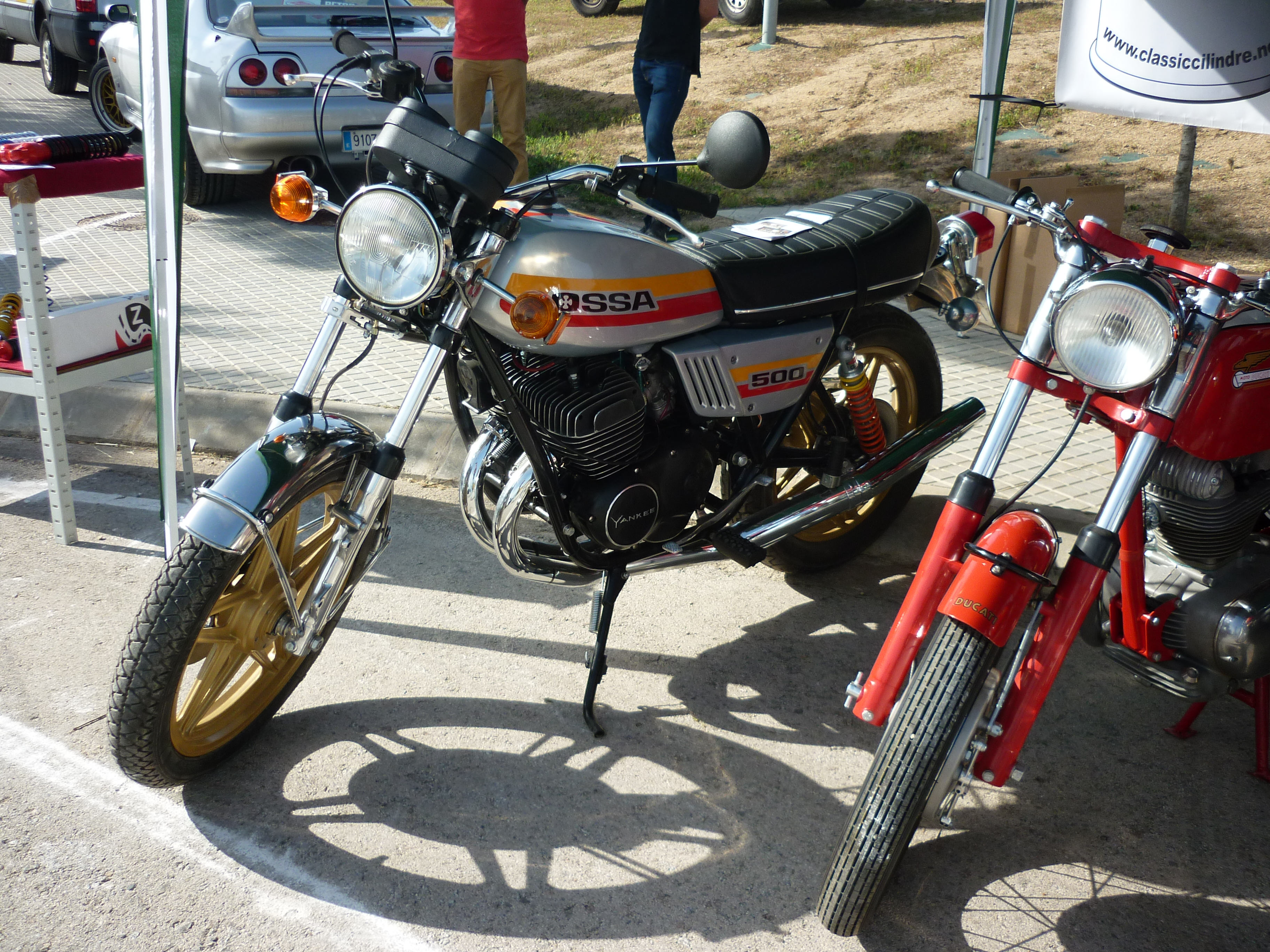 Left: OSSA Yankee 500, 1976